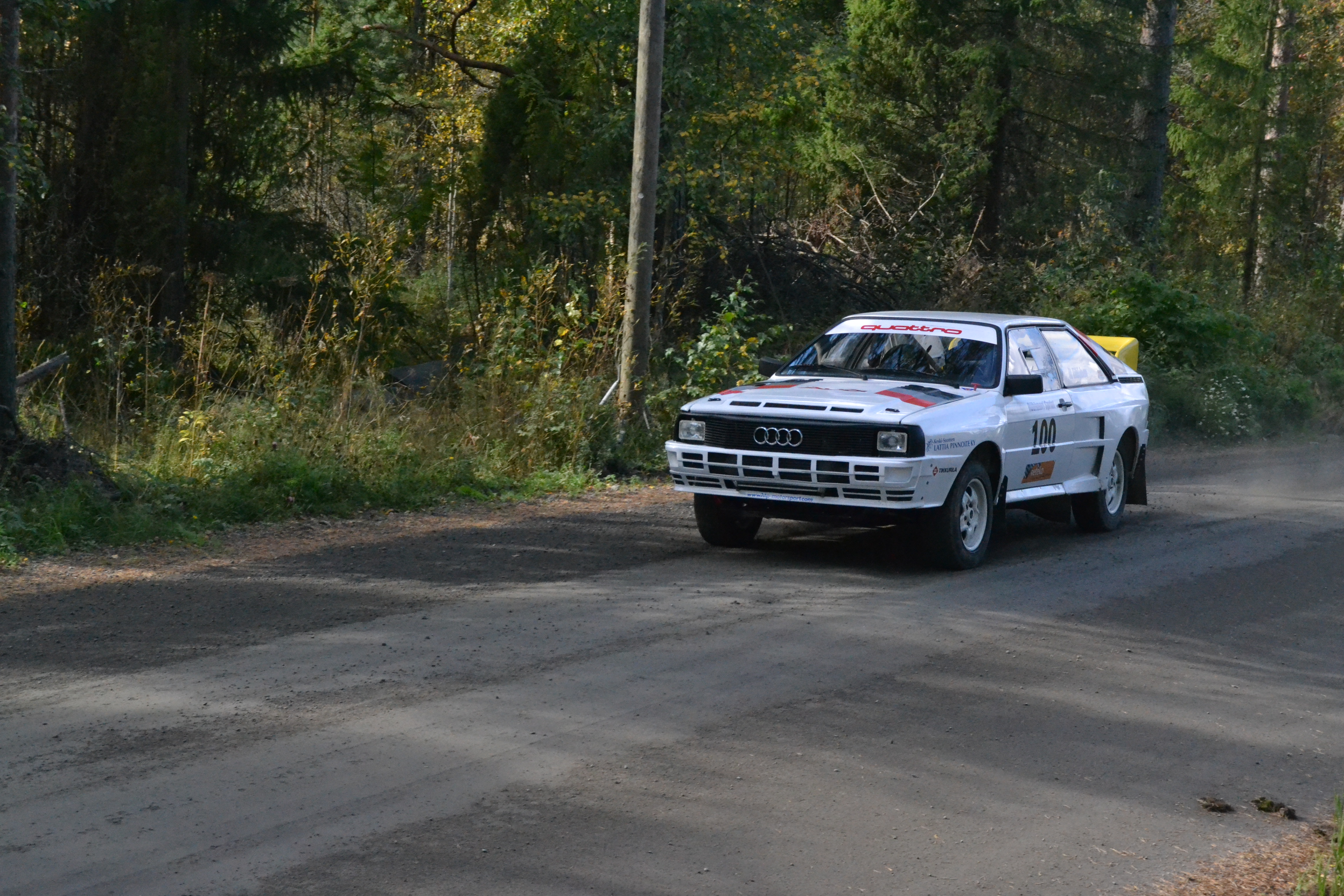 Harri Tikkinen at first run of 2015 Riihivuori Rallisprint